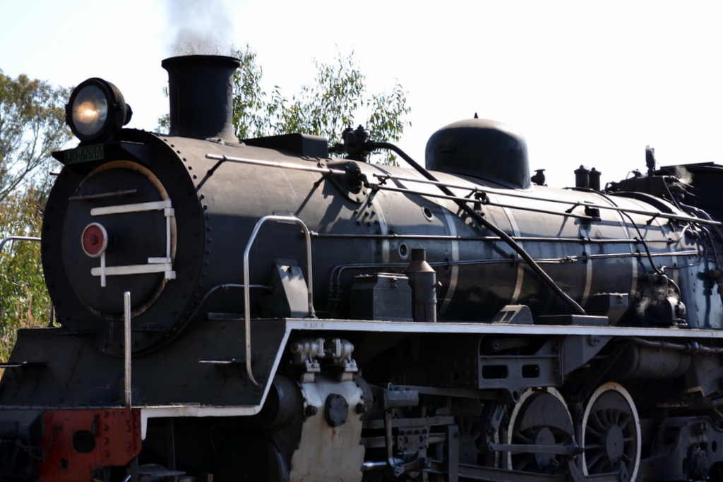 Friends of the Rail JO-ANNA